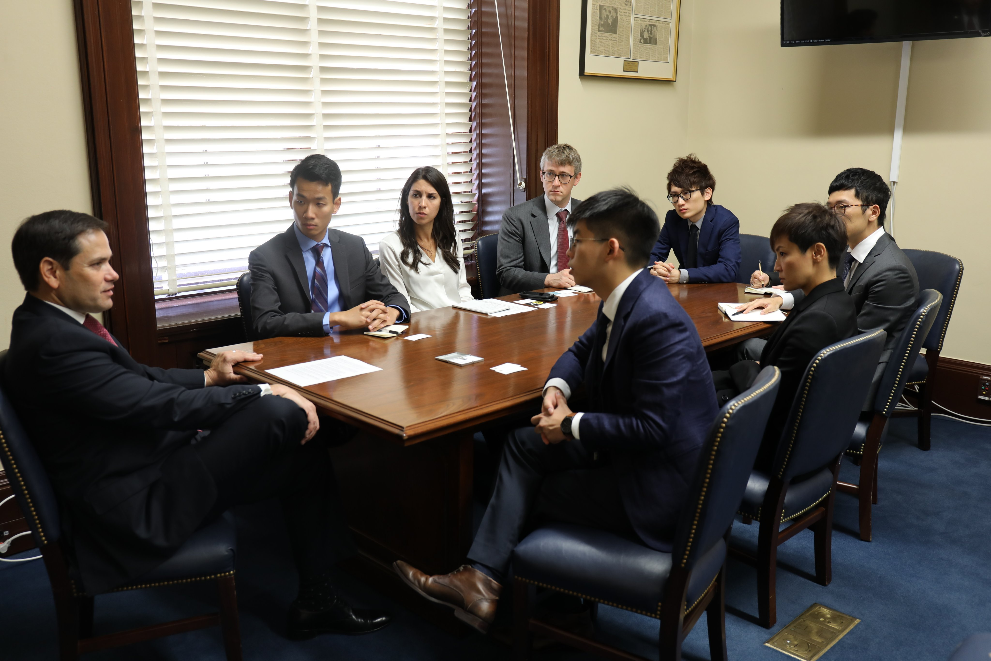 China Commission Chairman Marco Rubio holds a meeting with Hong Kong pro-democracy activists